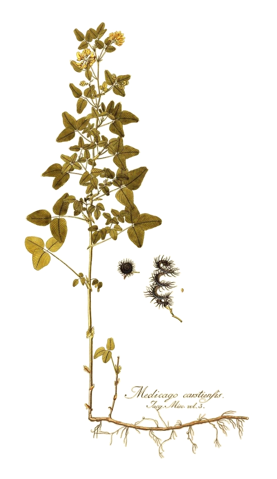 Illustration of Medicago carstiensis.